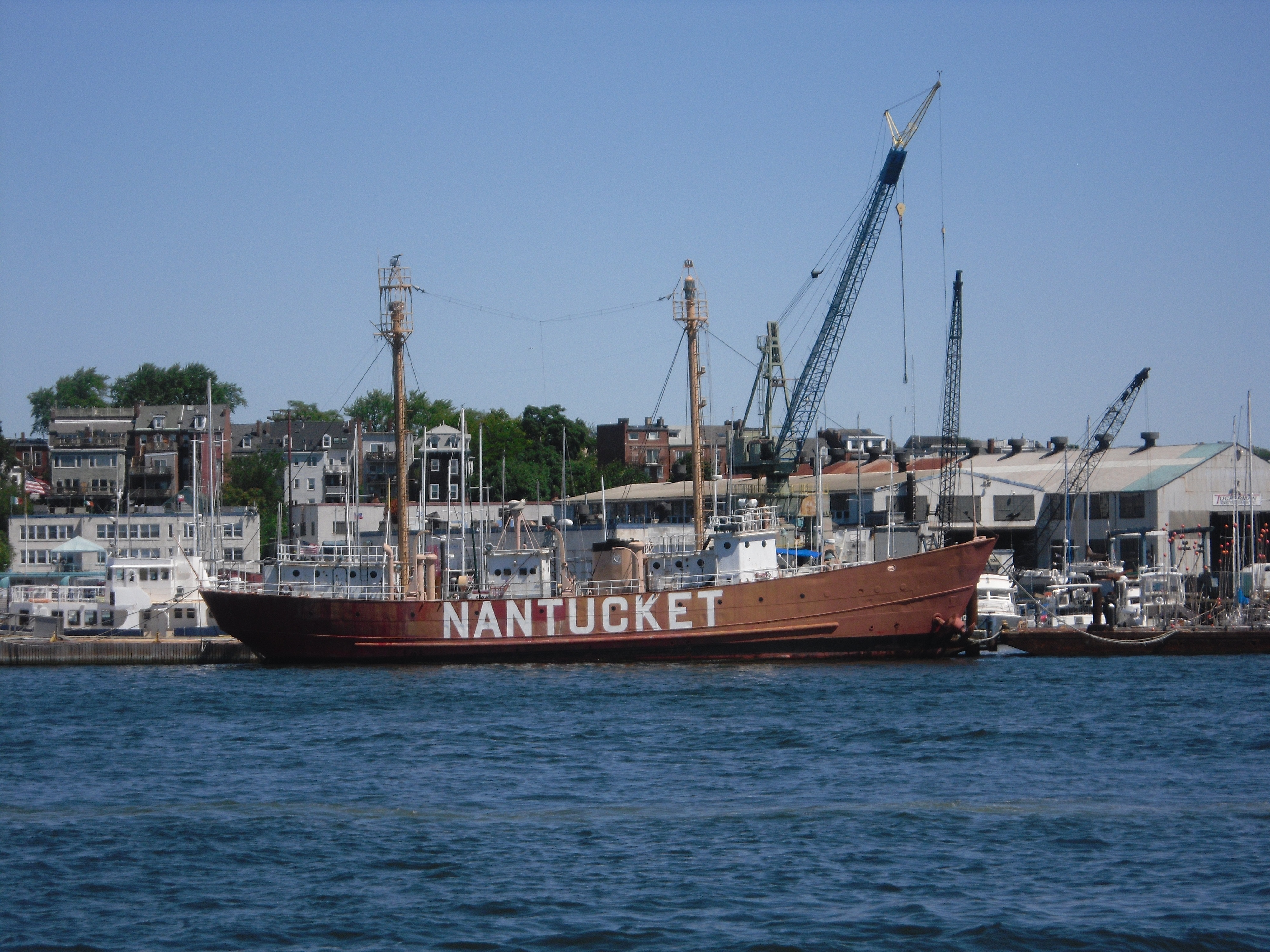 The de-commissioned lightship Nantucket in the port of Boston in August 2011